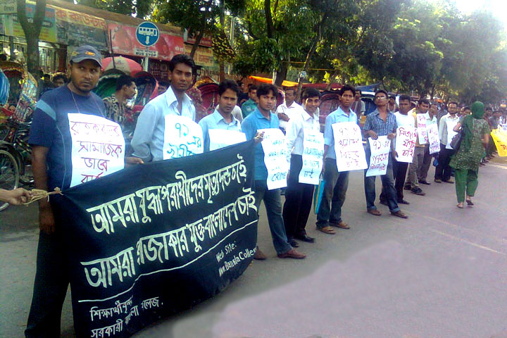 on 1971, pakistan killed 3 million people of bangladesh. for more info about the genocide, you can read the article “Bangladesh Liberation War” in Wikipedia. Bangla College, located at mirpur in dhaka, was used by pakistan army & local collaborator as war camp on that time. they killed thousands of people here. This photo is about the students movement demanding trial of war criminals of 1971 and to build monument in campus.